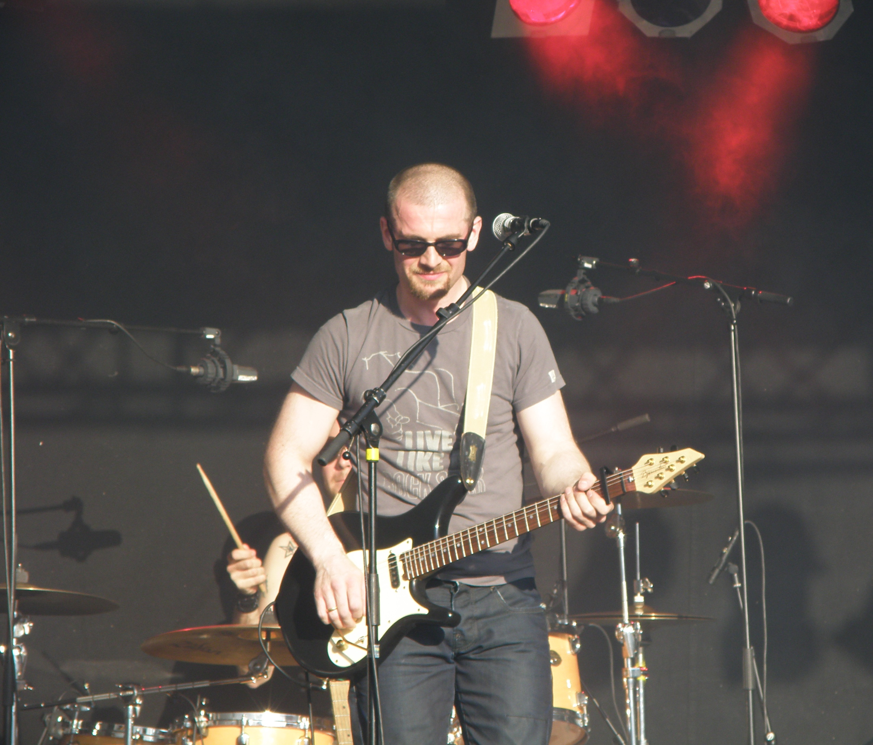 Jens Marni Hansen is a Faroese male singer and musician, he mostly sings rock. In June 2008 Jens Marni was warming up for Brian Adams at a concert in Tórshavn in the Faroe Islands. Jens Marni released his own CD in 2008, the title was "The Right Way". In February 2010 Jens Marni was participating in the Danish Melodi Grand Prix with the song Gloria. This photo was taken at the Jóansøka Festival 2009 (Midsummer Festival, in Farose called Jóansøkufestivalurin) in Tvøroyri, Suðuroy. Jens Marni and other Faroese singers and bands performed at the concert, which was held on 27 July 2009. Føroyskt: Jens Marni Hansen er føroyskur sangari og tónleikari. Í 2008 útgav hann fløguna "The Right Way". Jens Marni vann heiðurin "Ársins sangari" í 2008. Í februar 2010 luttók Jens Marni í donsku tónleikakappingini "Melodi Grand Prix" við sanginum Gloria. Henda myndin varð tikin á Jóansøkufestivalinum 2009 á Tvøroyri 27. juli 2009.